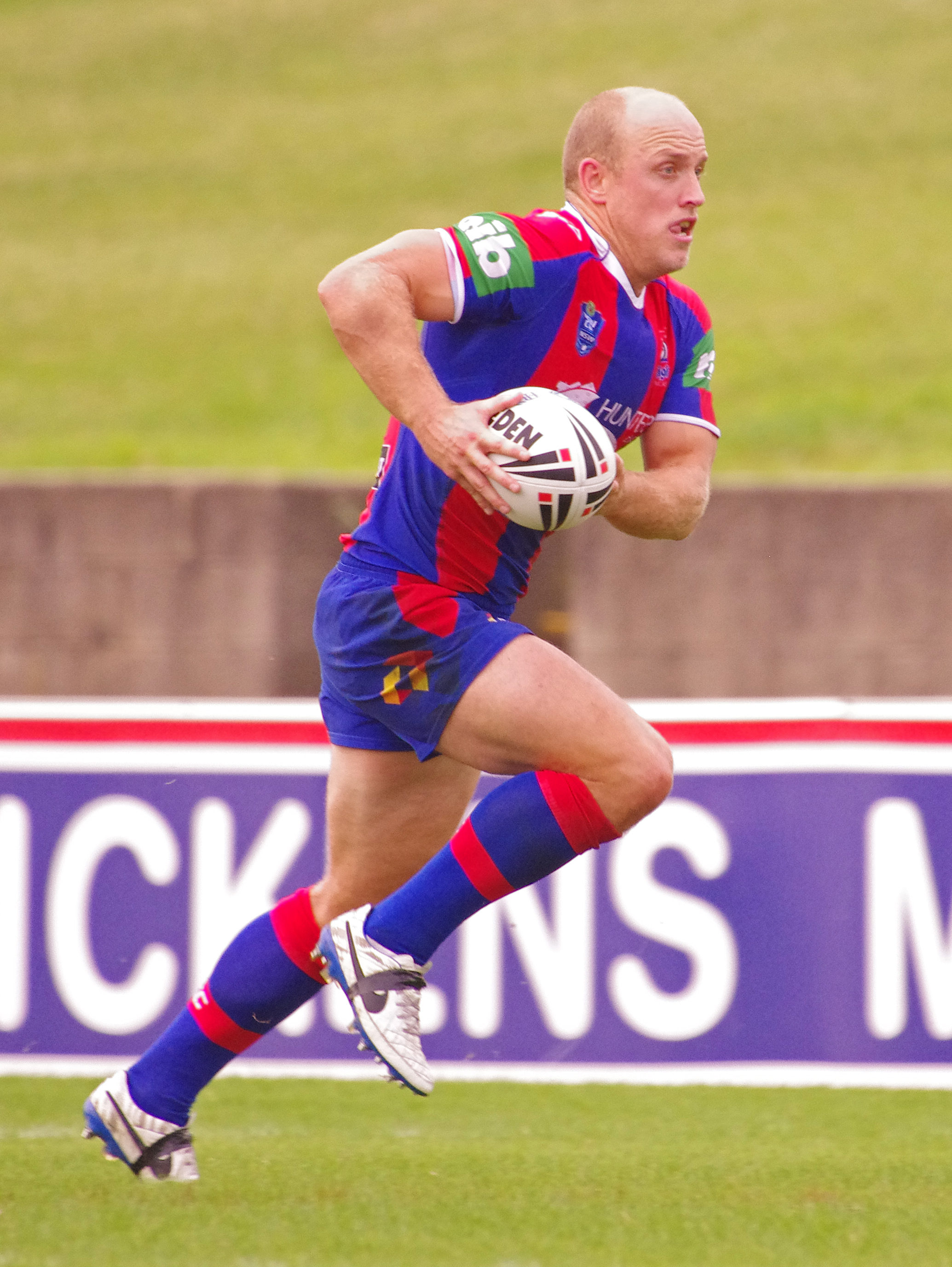 Michael Dobson